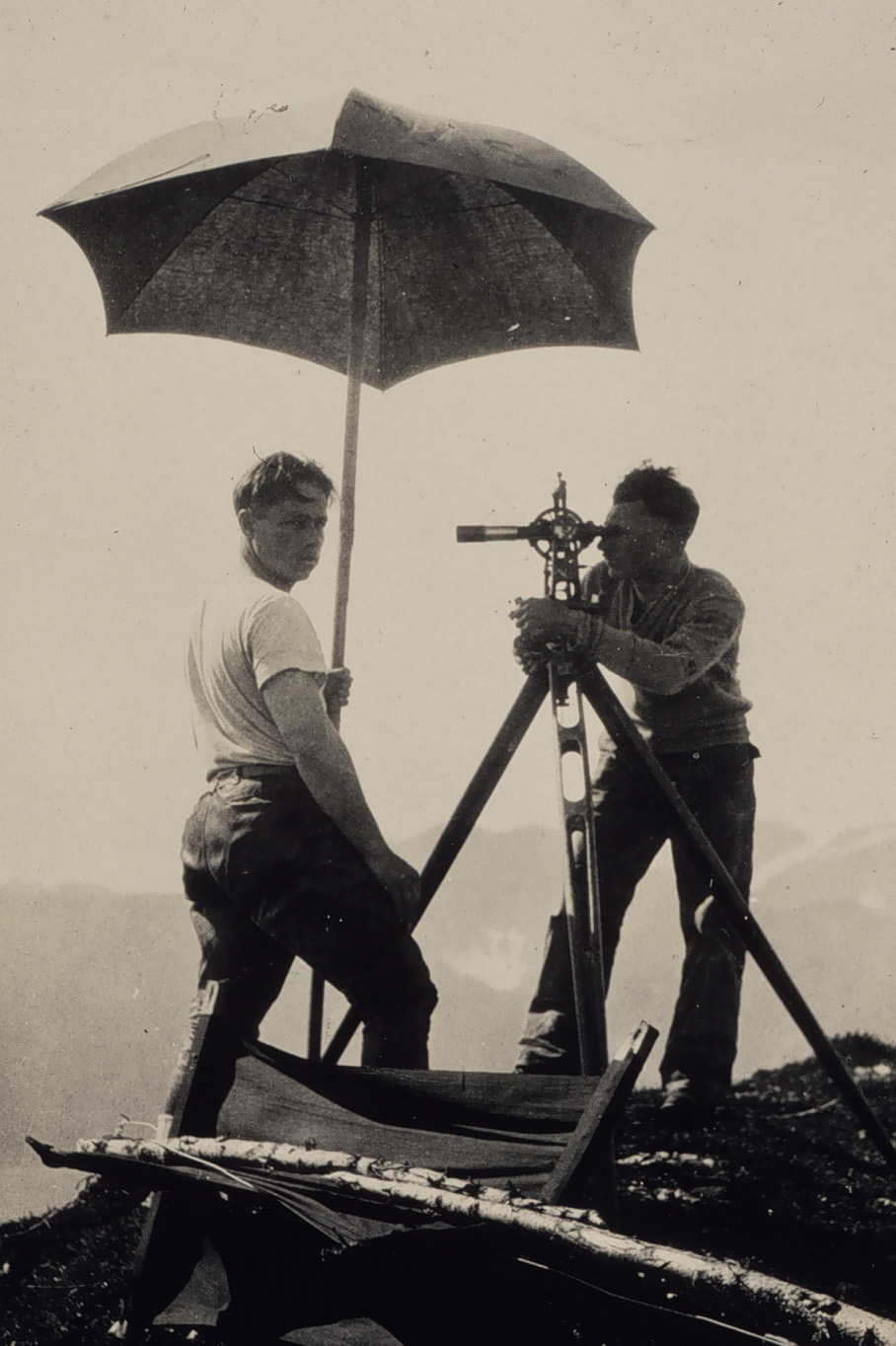 3rd order triangulation on west end of Kodiak Island. Off ship SURVEYOR. Alaska, Kodiak Island.